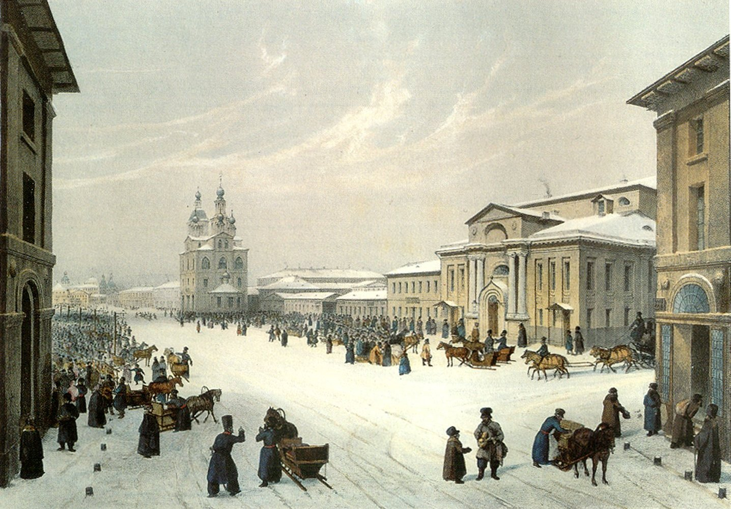 Noble meeting house